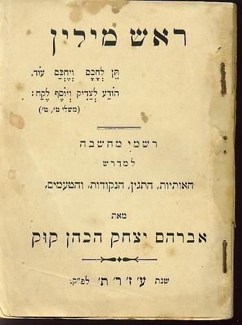 Rosh Milin By Rabbi Kook - 1st edition - London